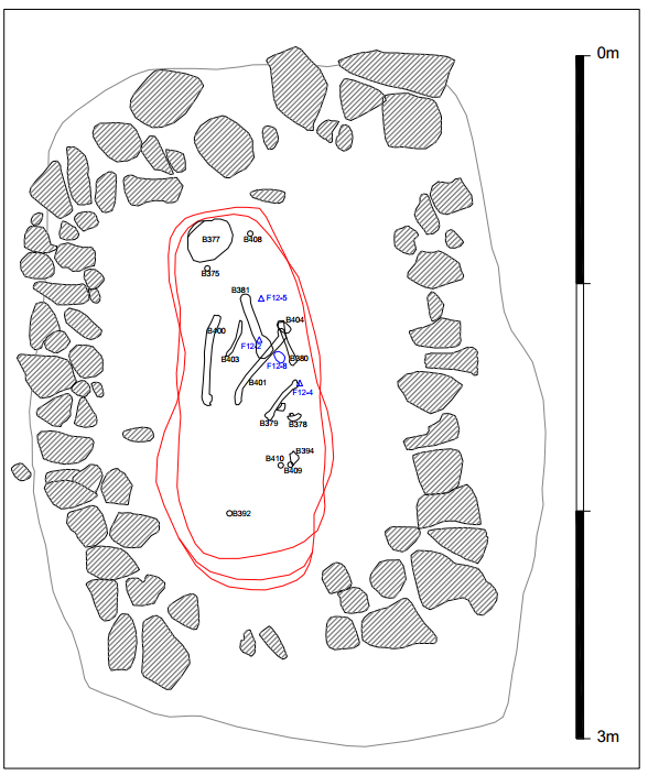 Kuml 6